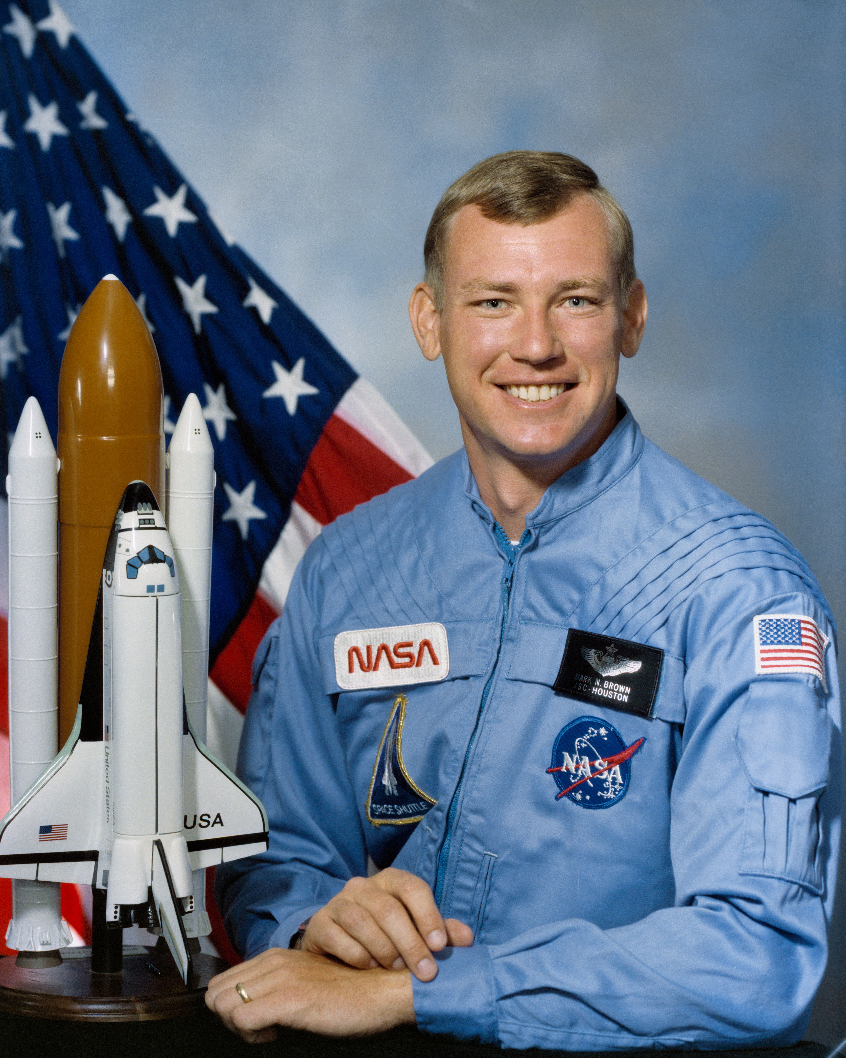 portrait astronaut Mark Brown